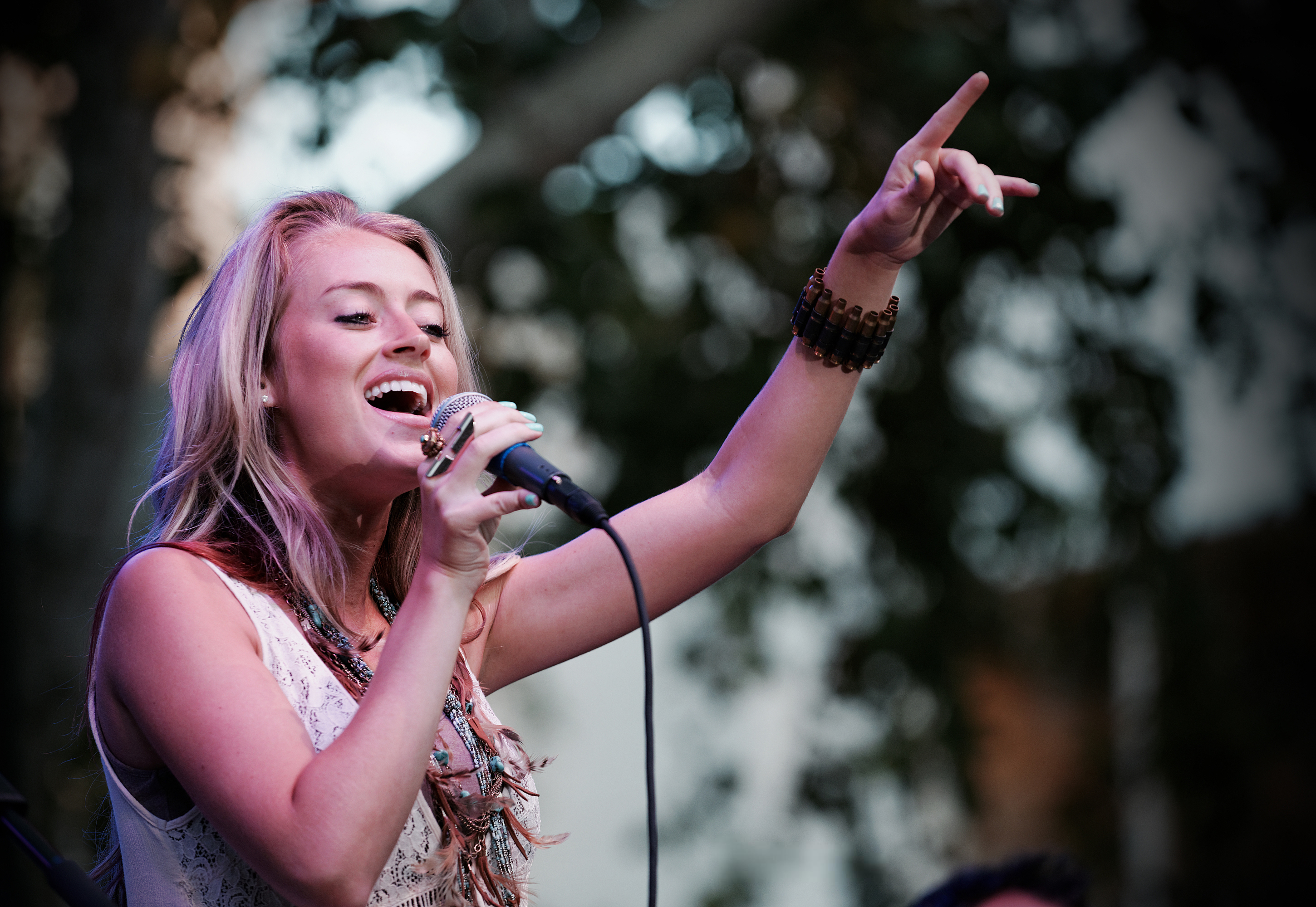 Brooke Eden performing live at The Grove in Los Angeles California on Wednesday July 15th, 2015. Brooke opened for Gloriana as part of The Grove's free annual Summer Concert Series presented by Citi.